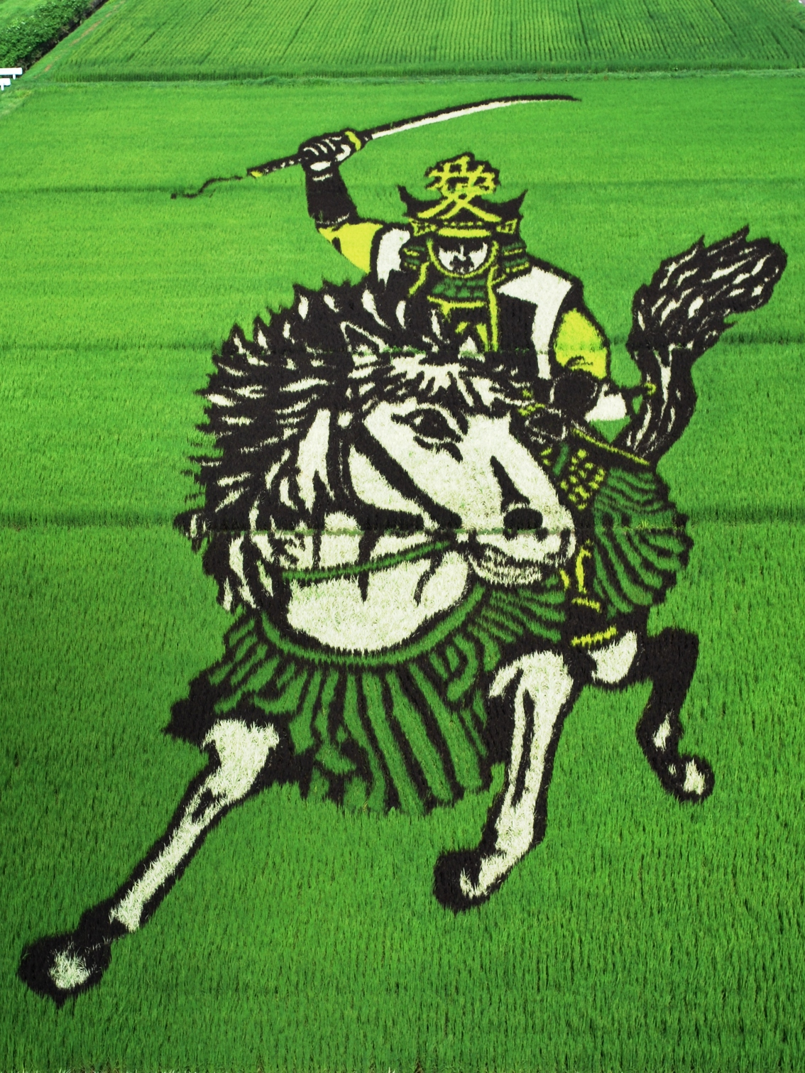 Sengoku busho of rice field art at Inakadate village, Aomori prefecture, Japan